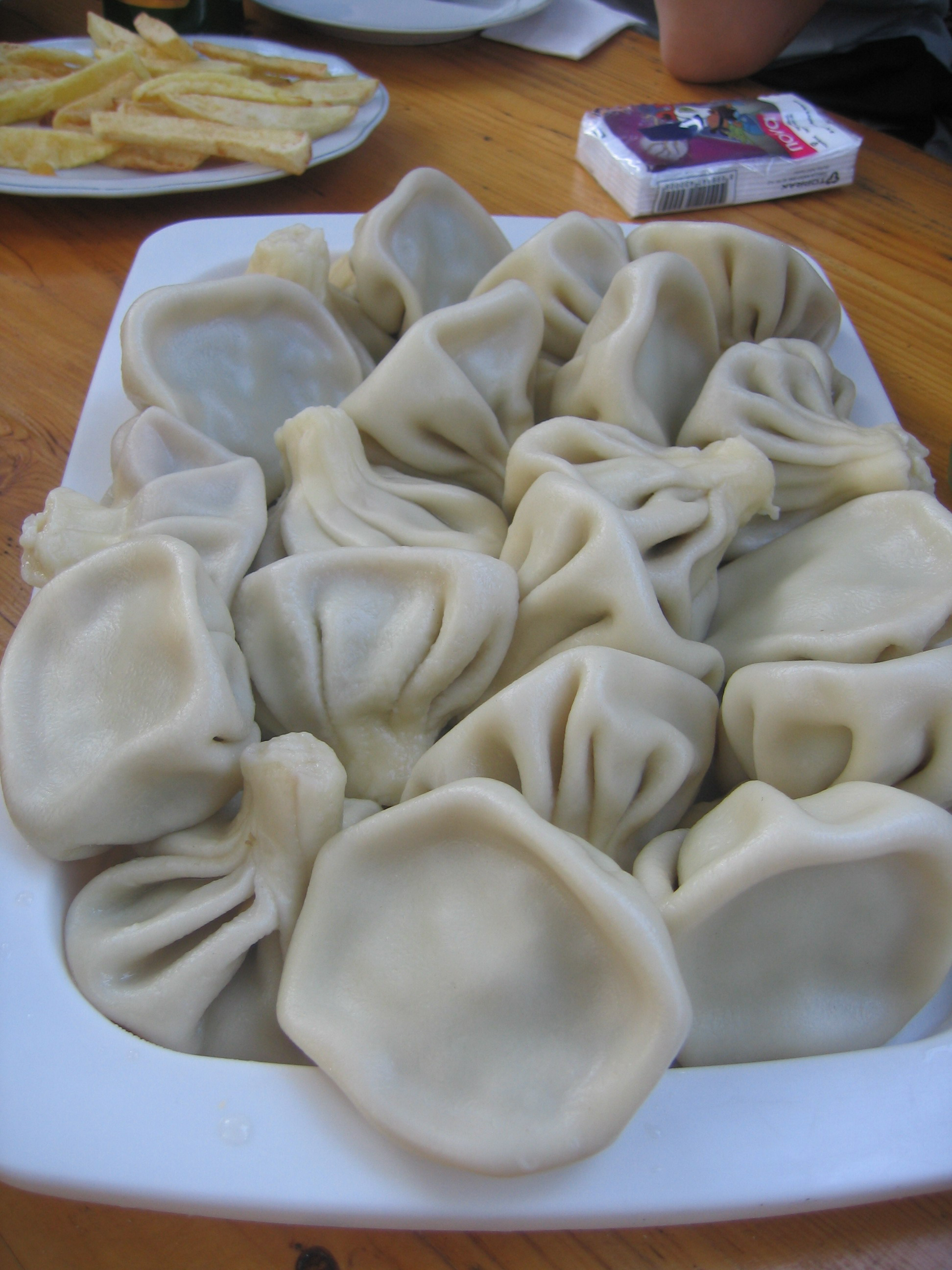 A plate of khinkali, Georgian dumplings stuffed with meat.